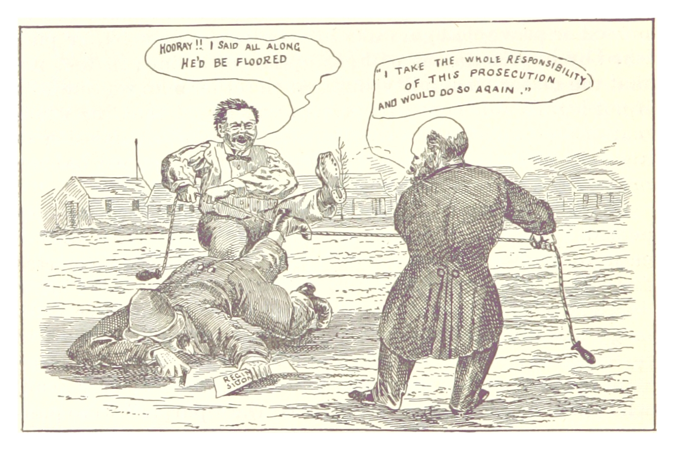 Caricature showing the bearded Sidney Godolphin Alexander Shippard (right) and R.W. Murray "Limner" (left) tripping up the Lieutenant Governor of Griqualand West, Major William Owen Lanyon. Image relates to the unsuccessful attempt by Major Lanyon to sue the newspaper editor Murray for libel, and Shippard's support for the newspaper.